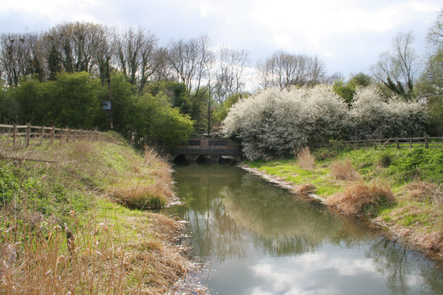 The River Gwash, near Manton, Rutland. The main feeder into Rutland Water just before it goes under the A6003 and flows into the reservoir. The main line railway track between Birmingham and Stanstead runs along the top of the embankment.